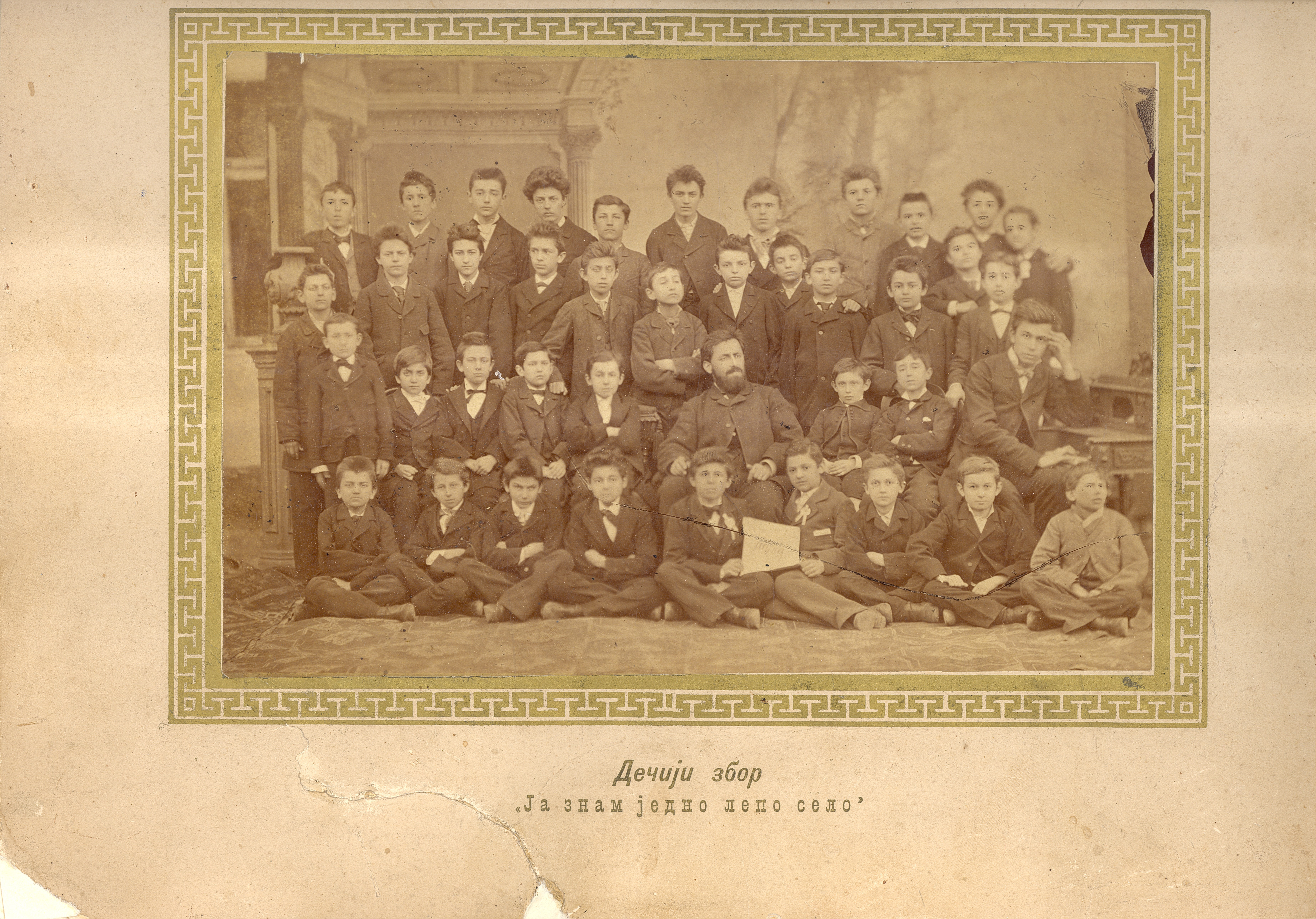 Photograph of professor of the Serbian Orthodox Gymnasium in Novi Sad Jovan Grčić with student choir (1890), inventory number 334. Srpski (latinica): Fotografija profesora Srpske velike pravoslavne gimnazije u Novom Sadu Jovana Grčića sa učeničkim horom (1890), inventarski broj 334.